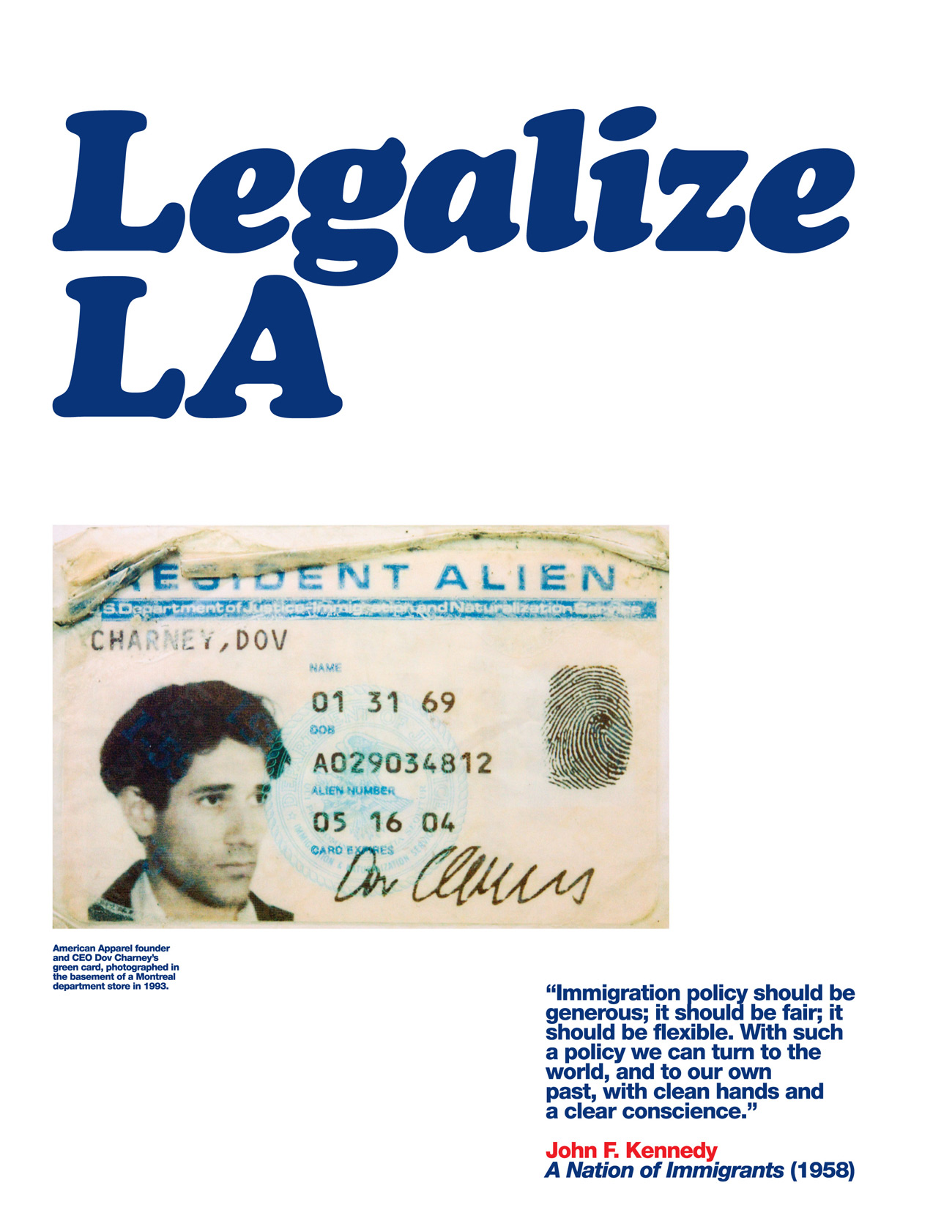 Photo of American Apparel's Legalize LA ad